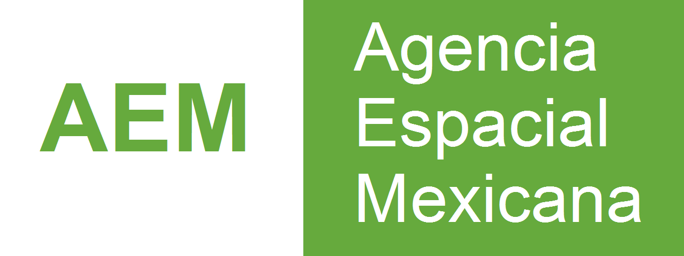 First image for de Mexican Space Agency